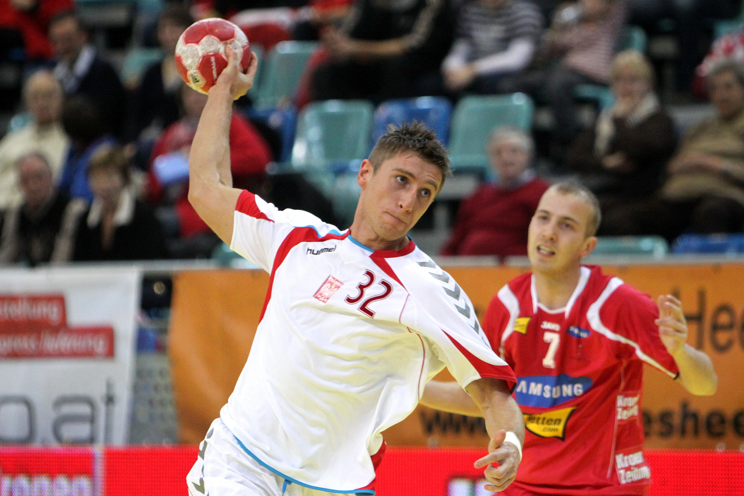 Tomasz Rosiński (KS Vive Kielce), Poland national handball team